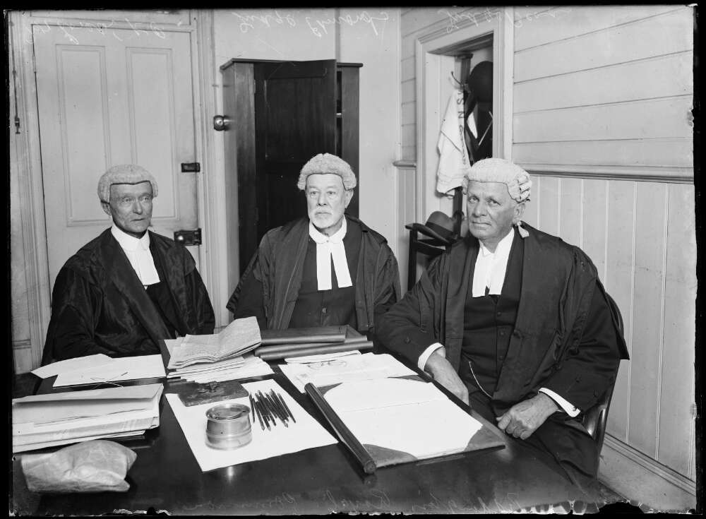 Judge Bevan, Mr E.J. Loxton KC and Judge Edmonds, being the members of the Royal Commission into AB Piddington Sydney 1927